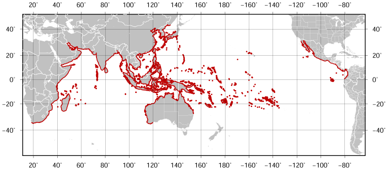 Geographical distribution of the Yellow-bellied Sea Snake Pelamis platura. The map was created using the Generic Mapping Tools, GMT, version 5.1.2.